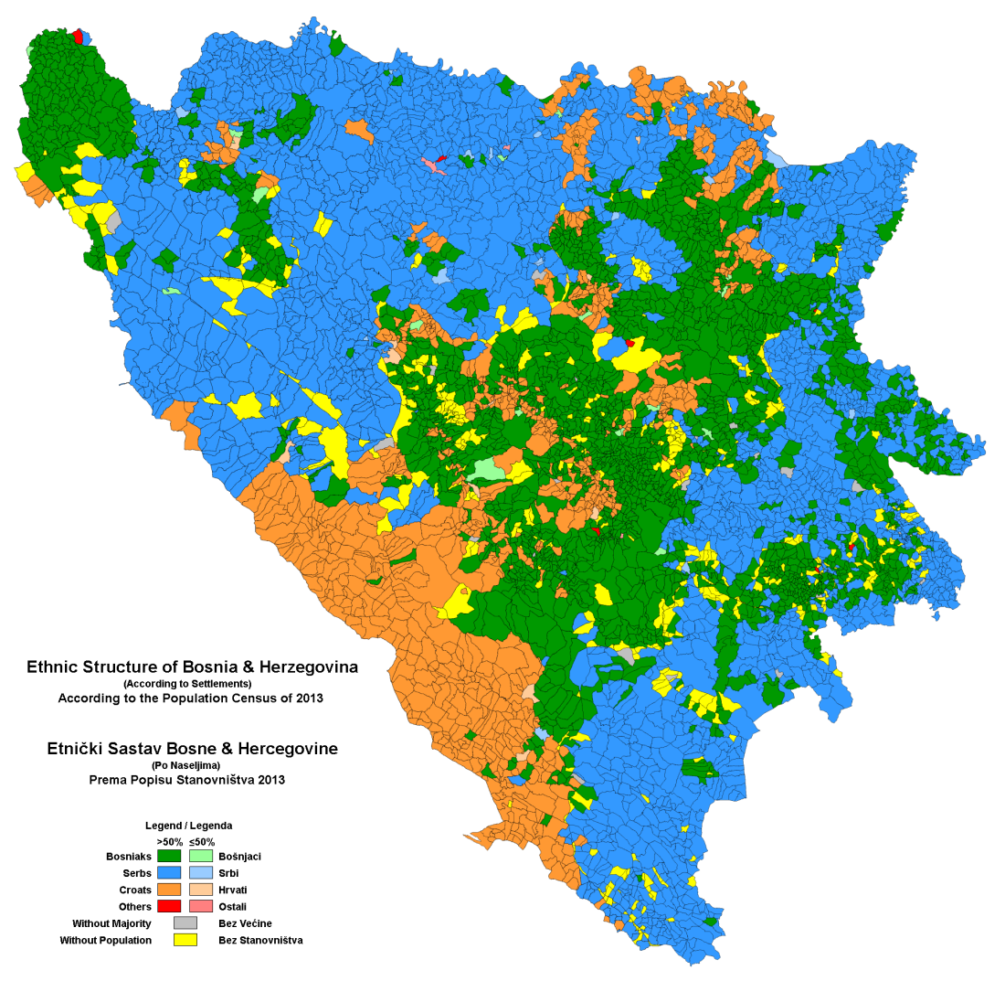 This is an ethnic map of Bosnia and Herzegovina according ot the 2013 population census.